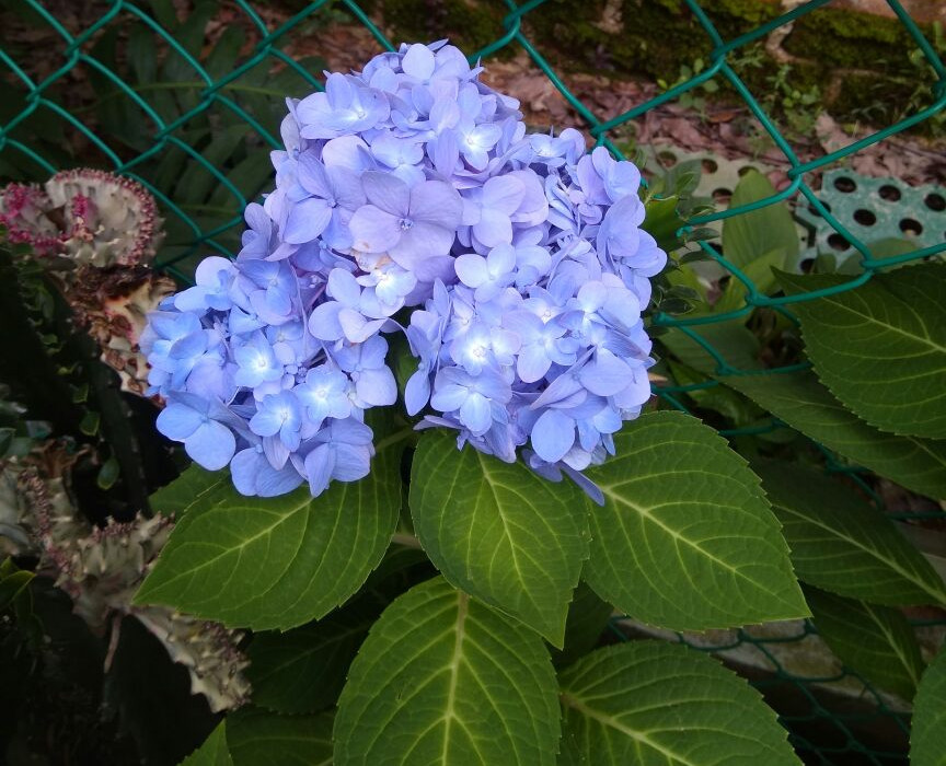 Planting Hydrangea in Singapore